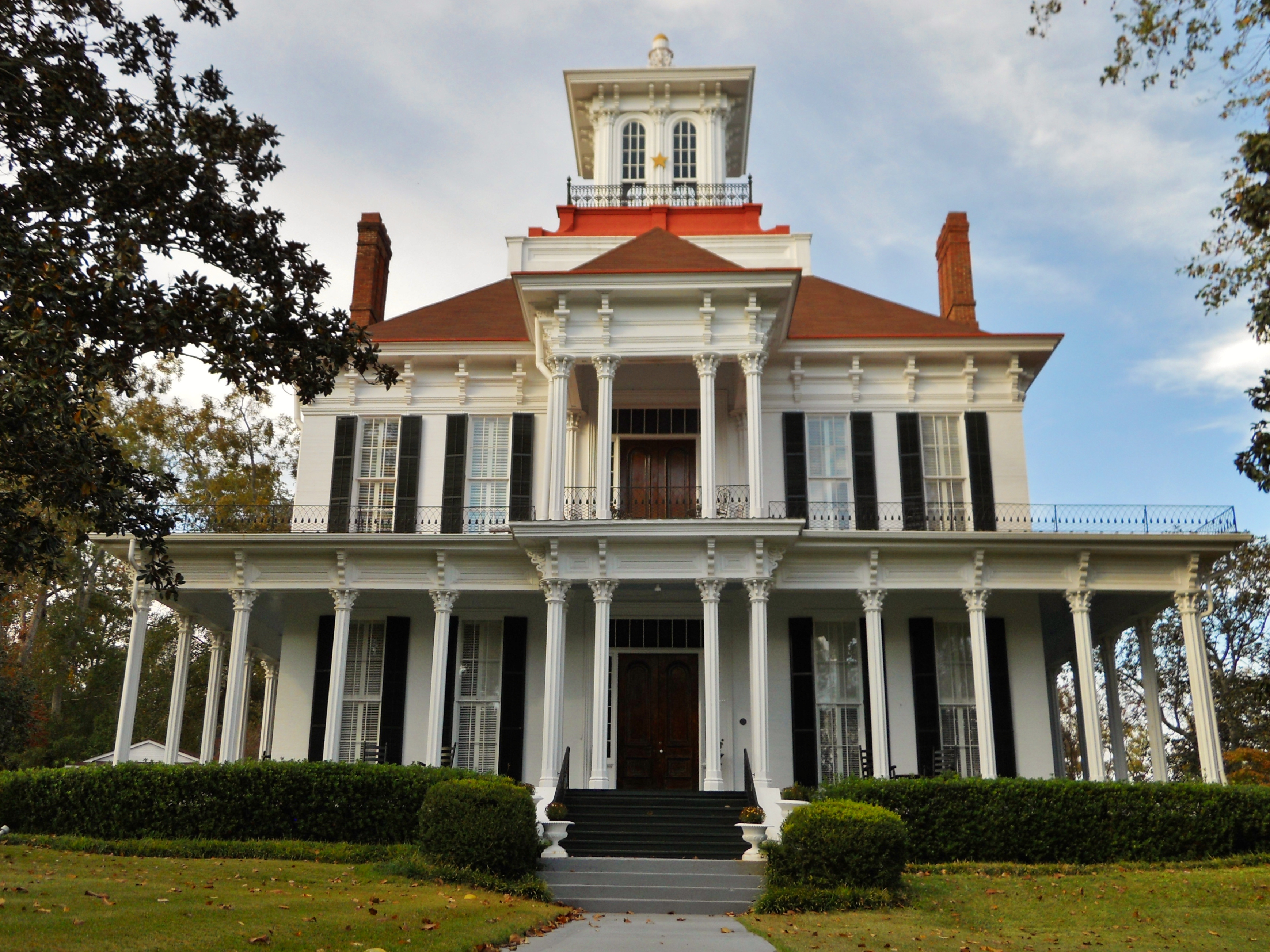 This is a photo of the Kendall Manor in Eufaula, Alabama.